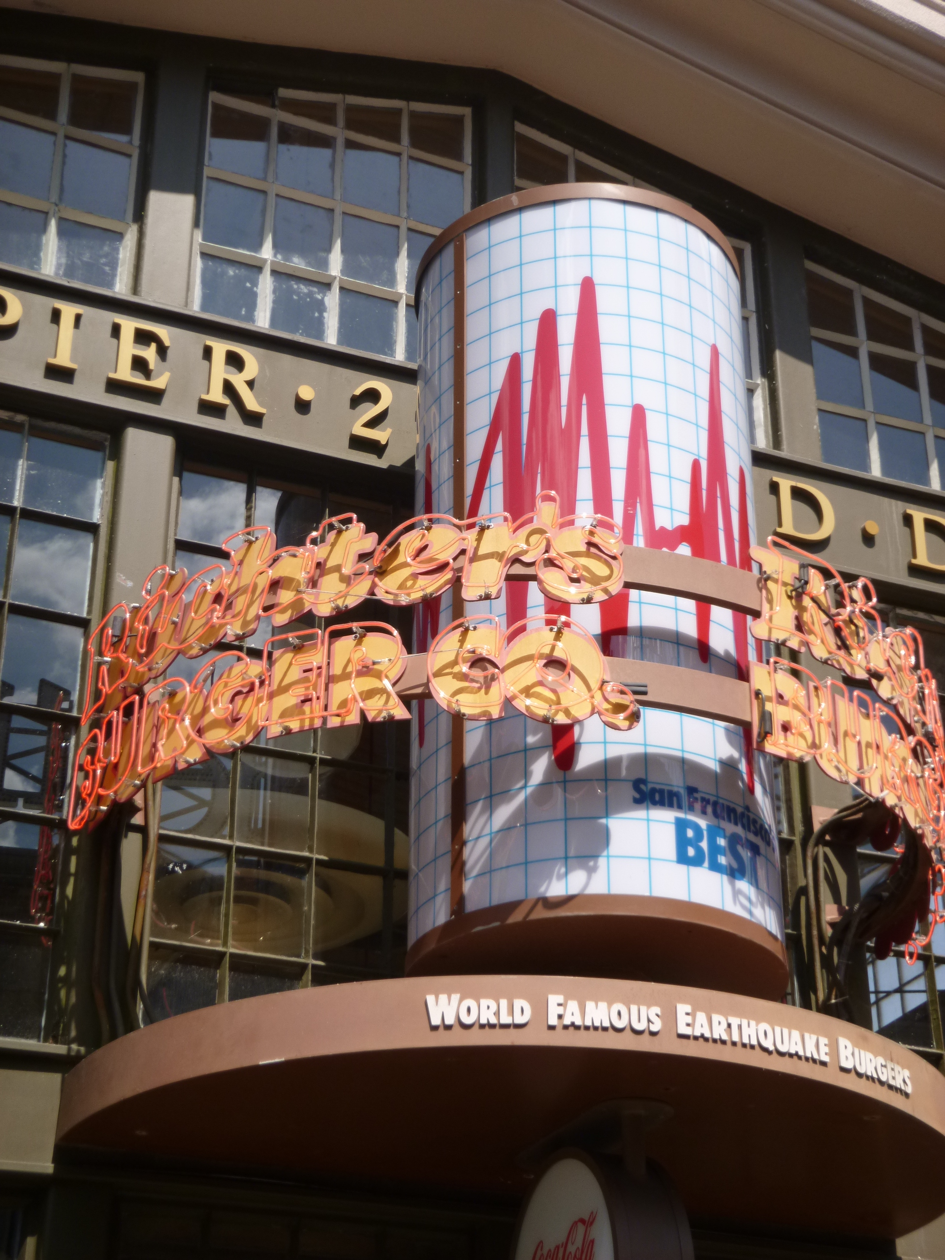 Richter's Burger Co. in the San Francisco themed area, Universal Studios Florida